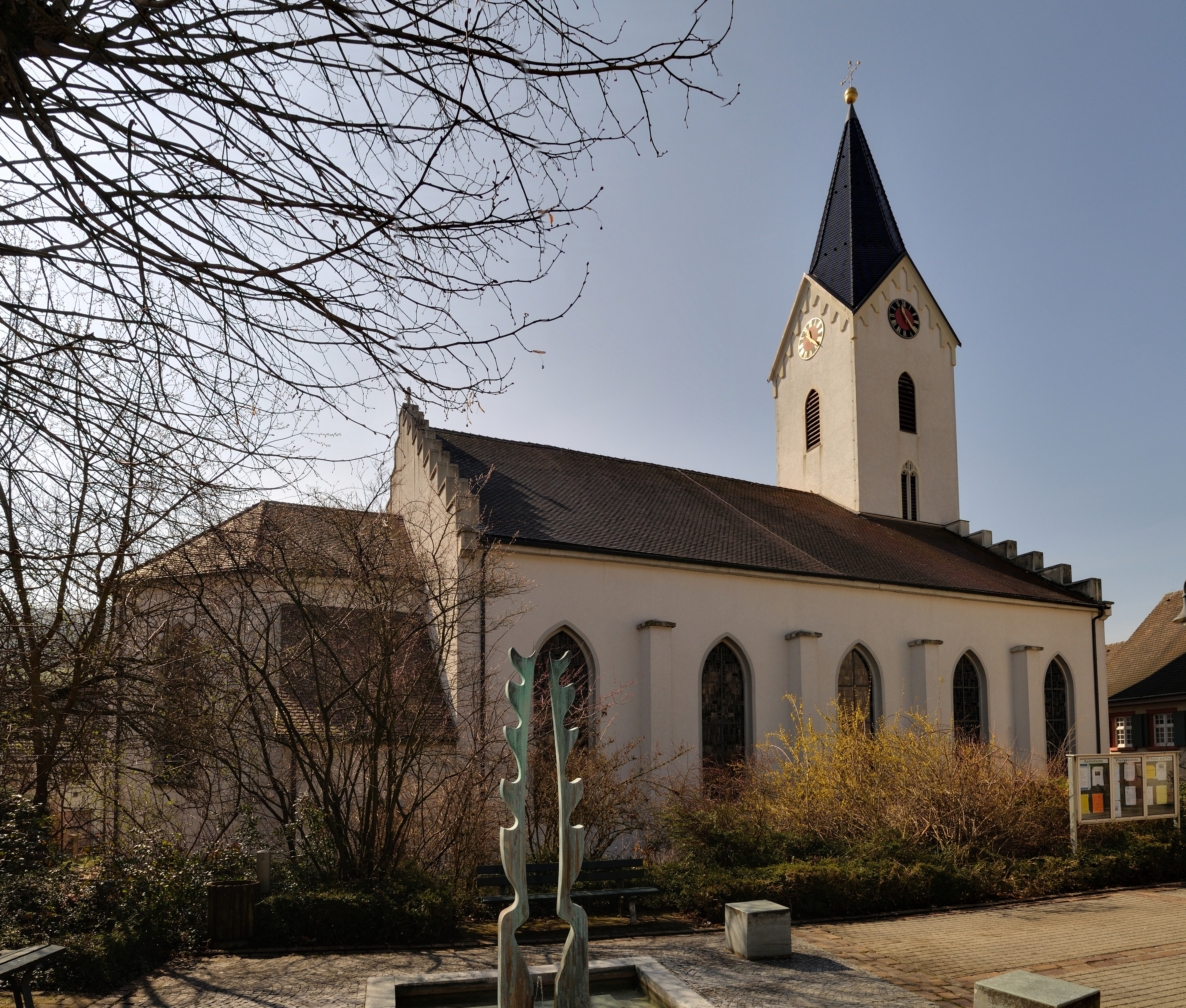 Inzlingen: Catholic Church